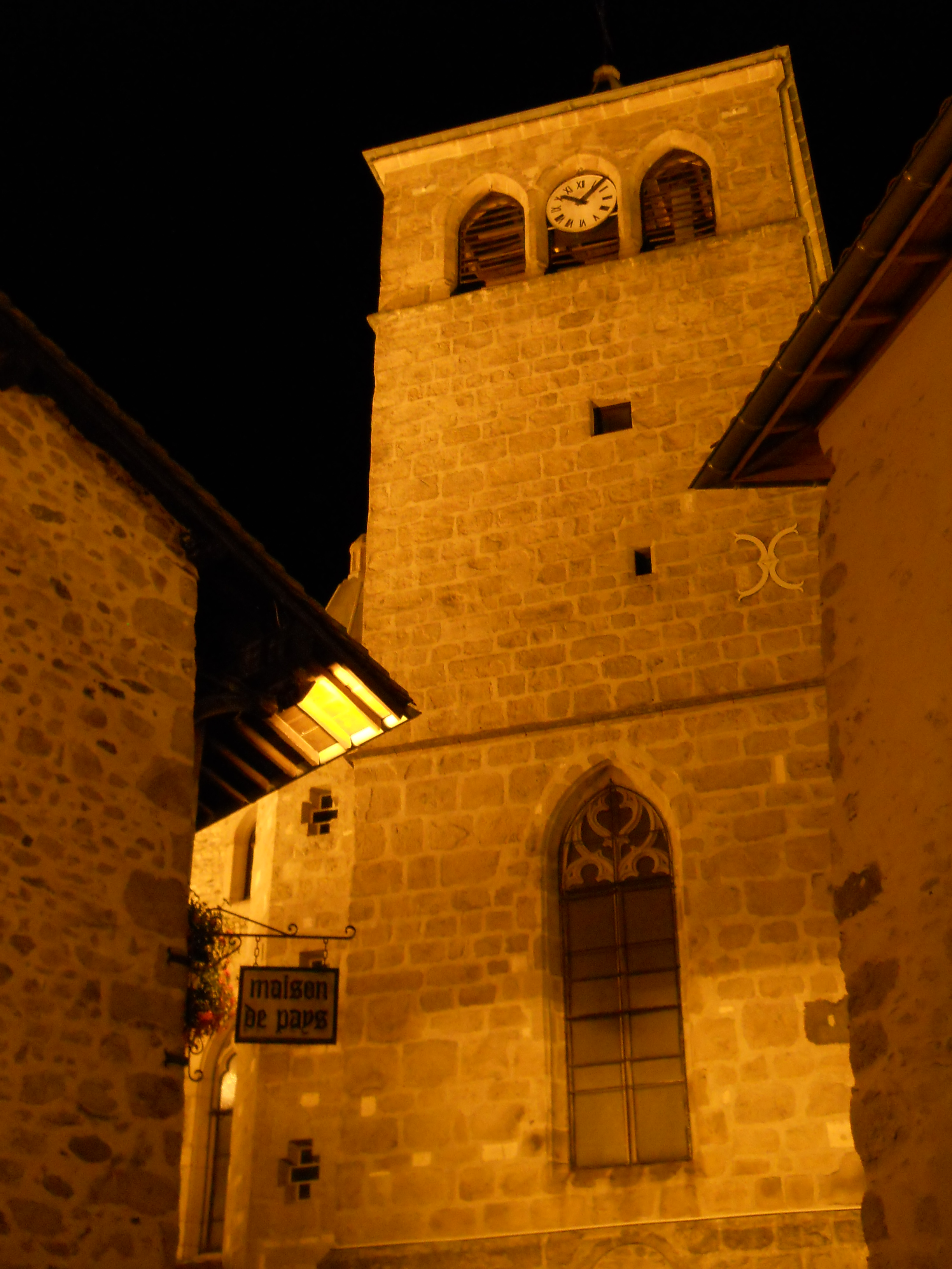 Bell tower, St. Peter church, Mornant, Rhône, France